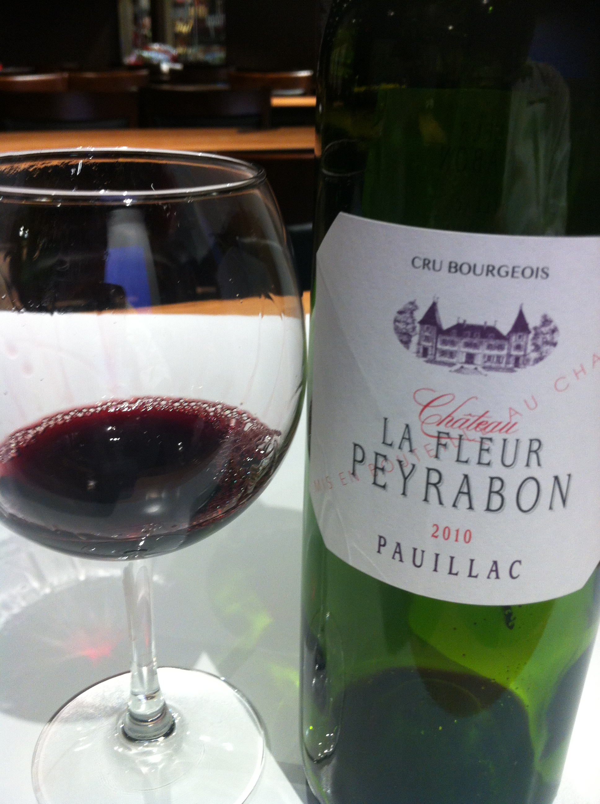 Red Pauliliac wine from the left bank of Bordeaux